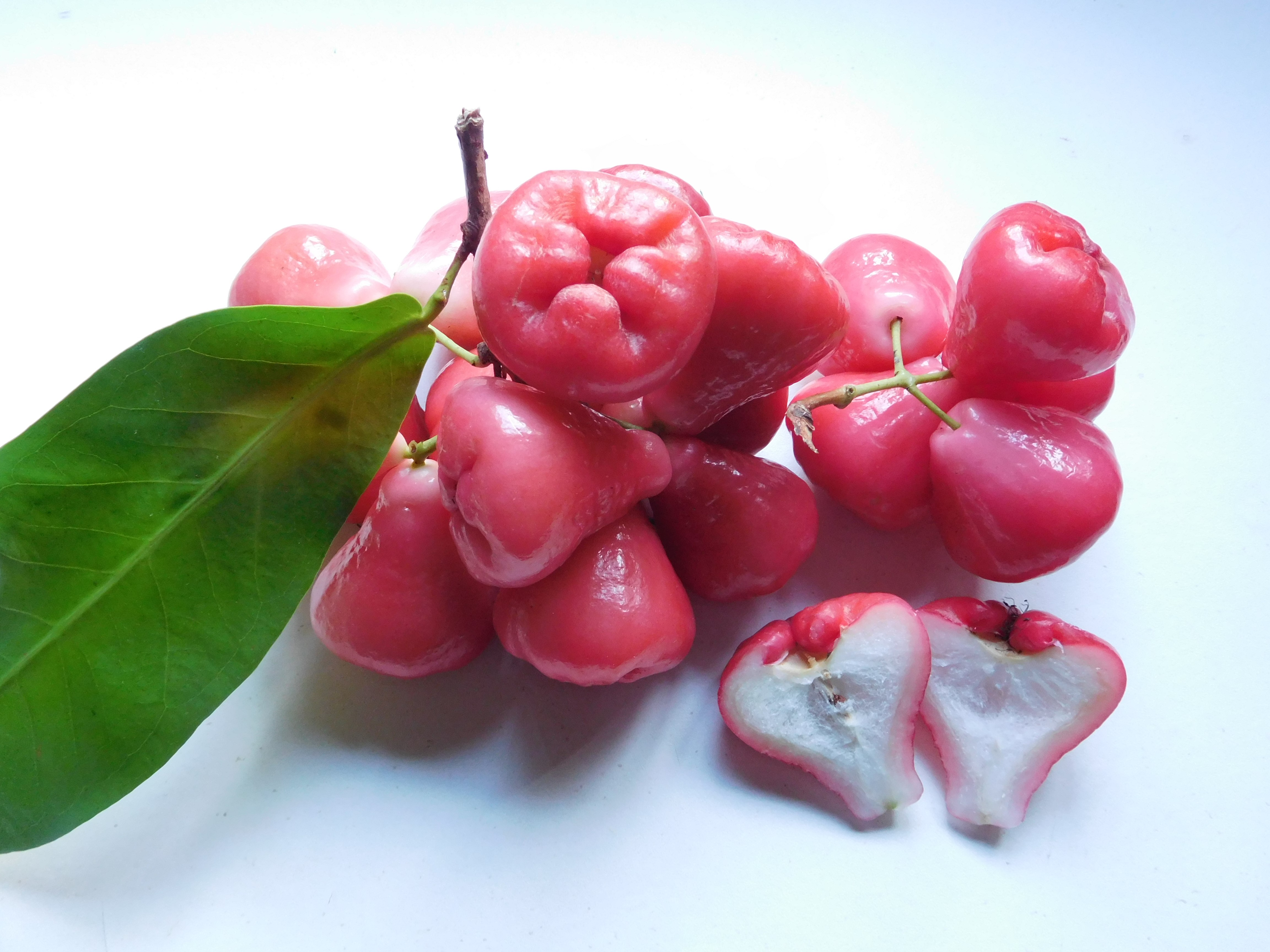 Syzygium samarangense:Wax jambu, Bell fruit